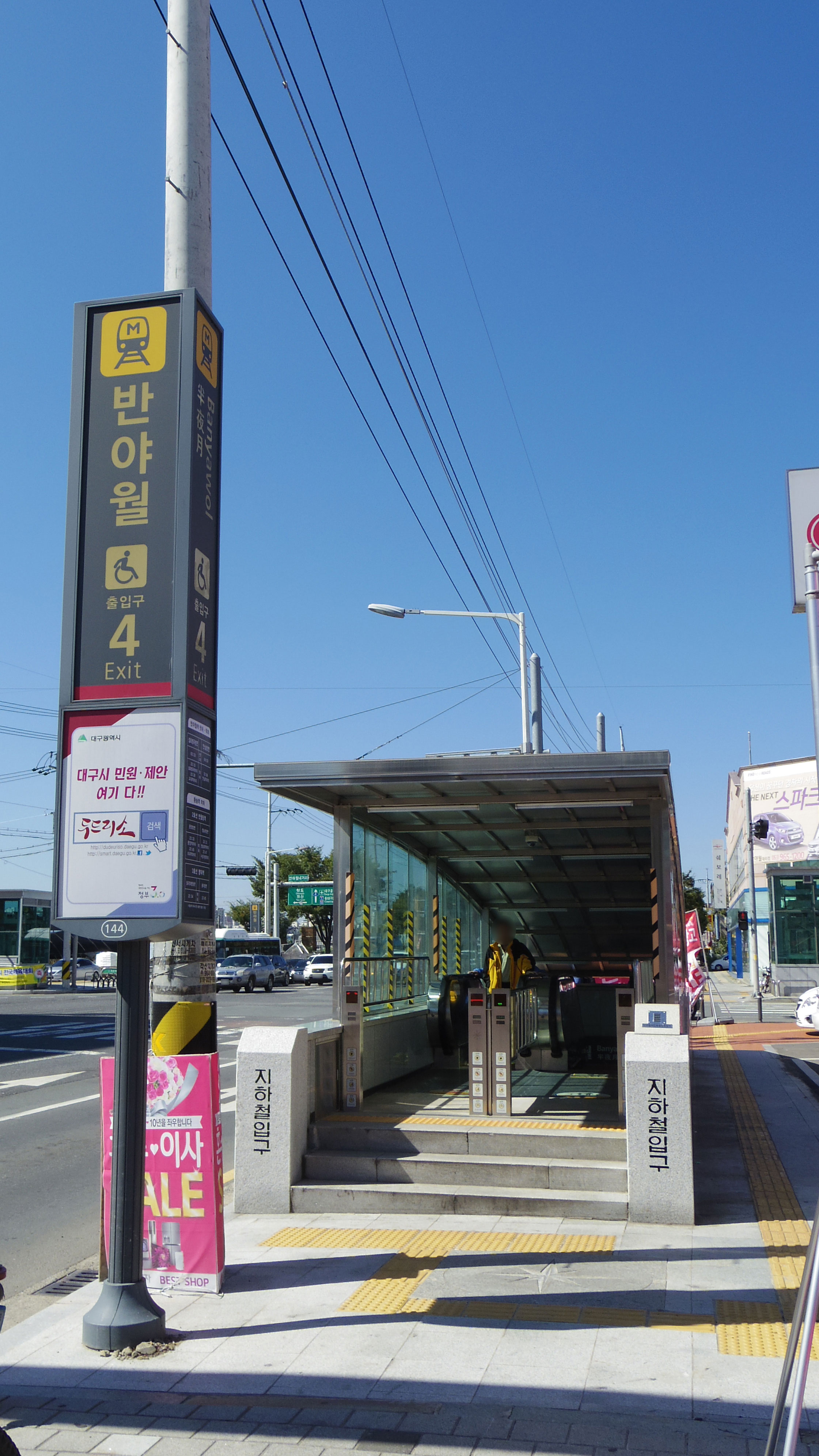 The entrance no.4 of Banyawol Station on the Daegu Metro Line 1